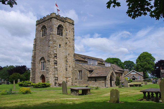 St Wilfrid's Church, Ribchester, near to Ribchester, Lancashire, Great Britain. The church hall is in the background on the right.